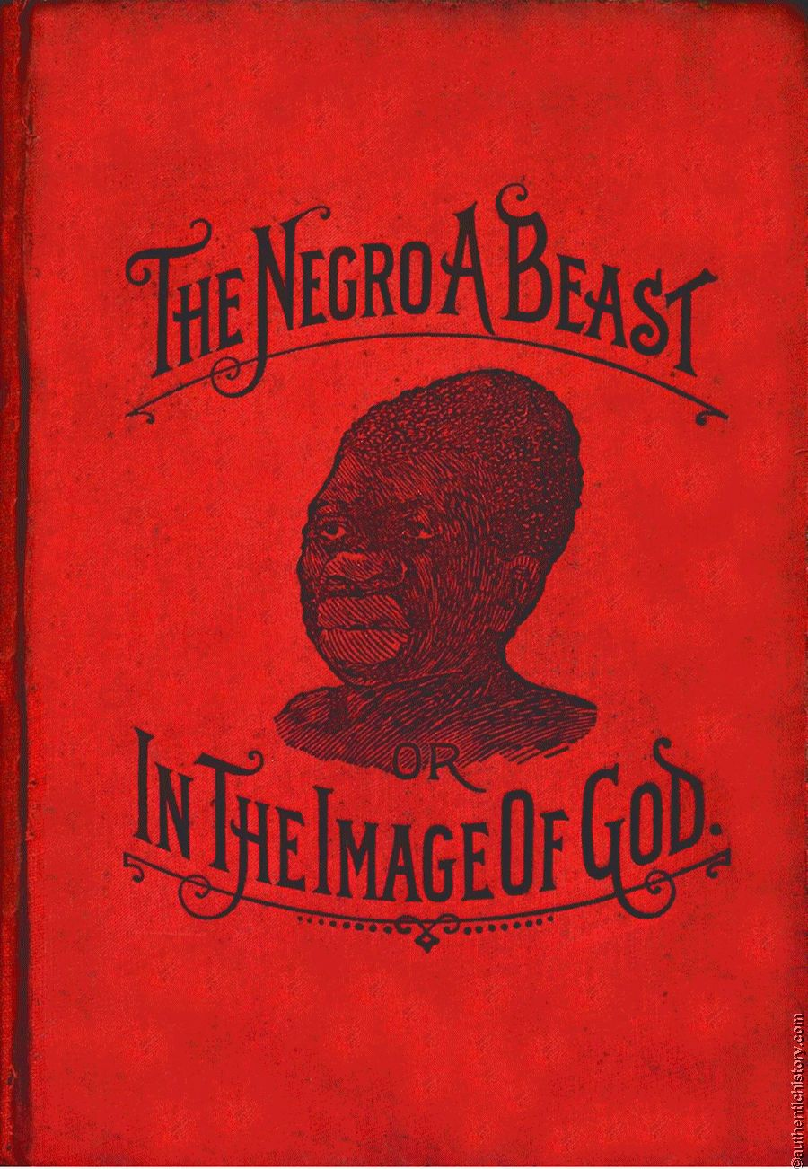 The Negro a Beast, by Charles Carroll. 1900. "The negro a beast, but created with articulate speech that he may be of service to his master – the White Man."